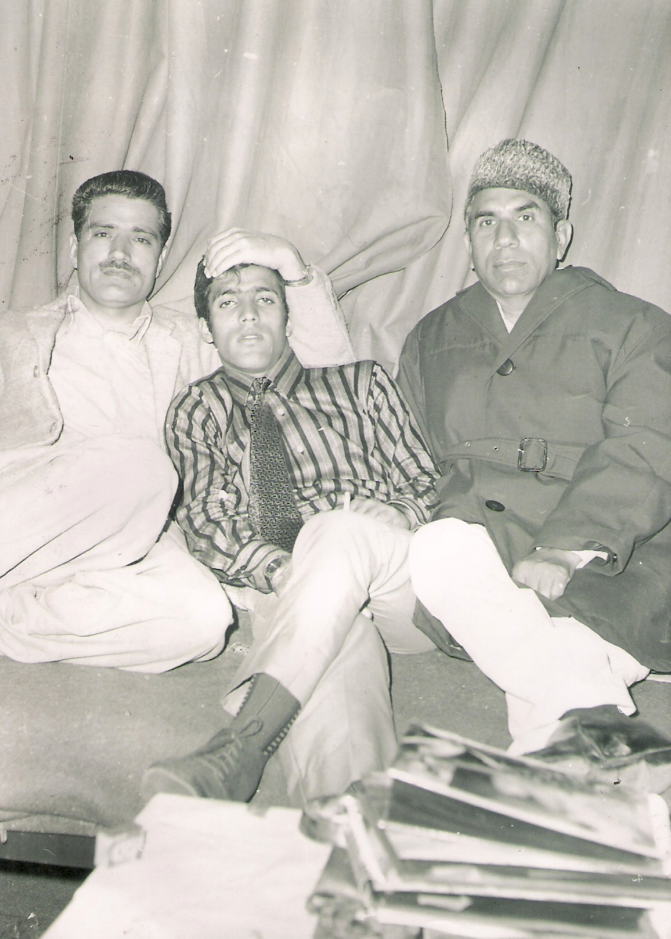 Maqbool Bhat, Hashim Qureshi and Mir Abdul Qayyum.